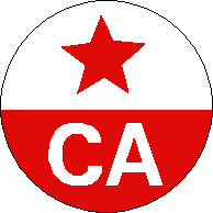 Emblem of the Soviet Army, here en: Group of Soviet Forces in Germany of en: Soviet Army – used for army vehicles.